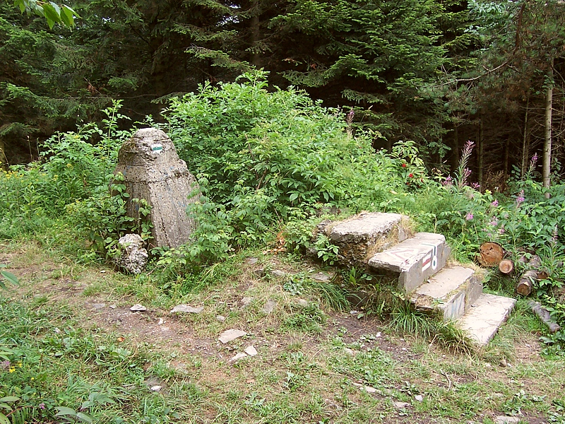 Poland, Lubomir Mountain. Ruins of the astronomic observatory burned during II World War by German Soldiers.